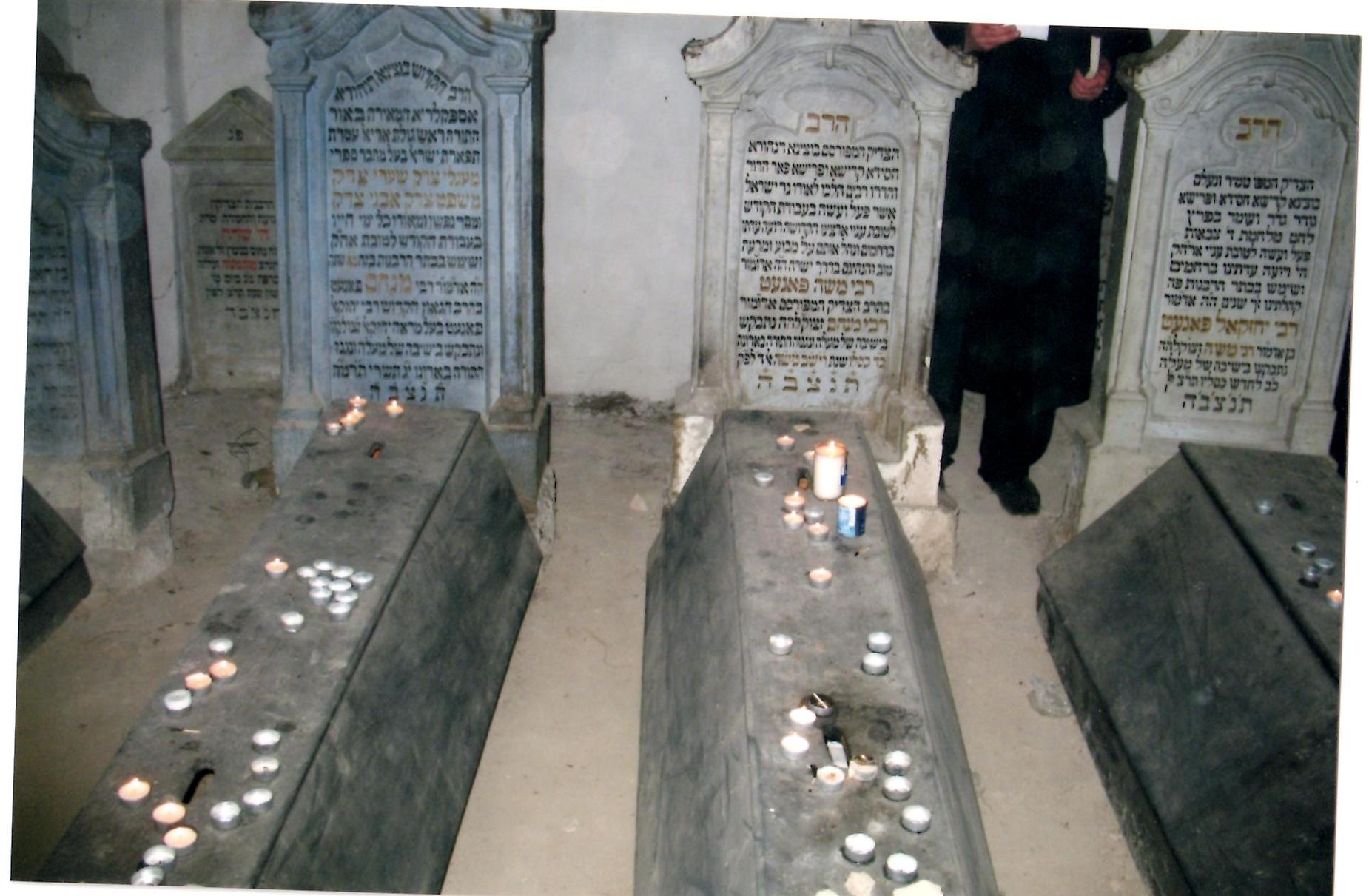 Graves of the Dezher rebbes